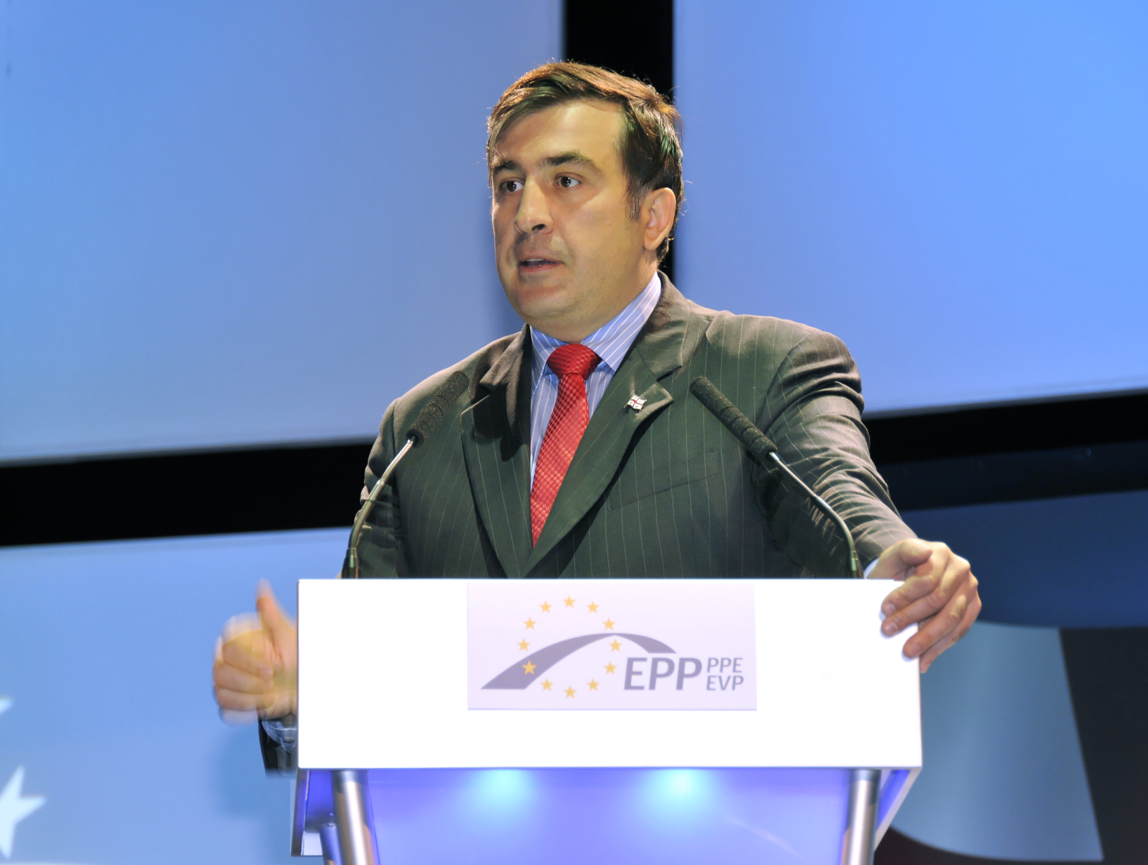 EPP Congress Warsaw